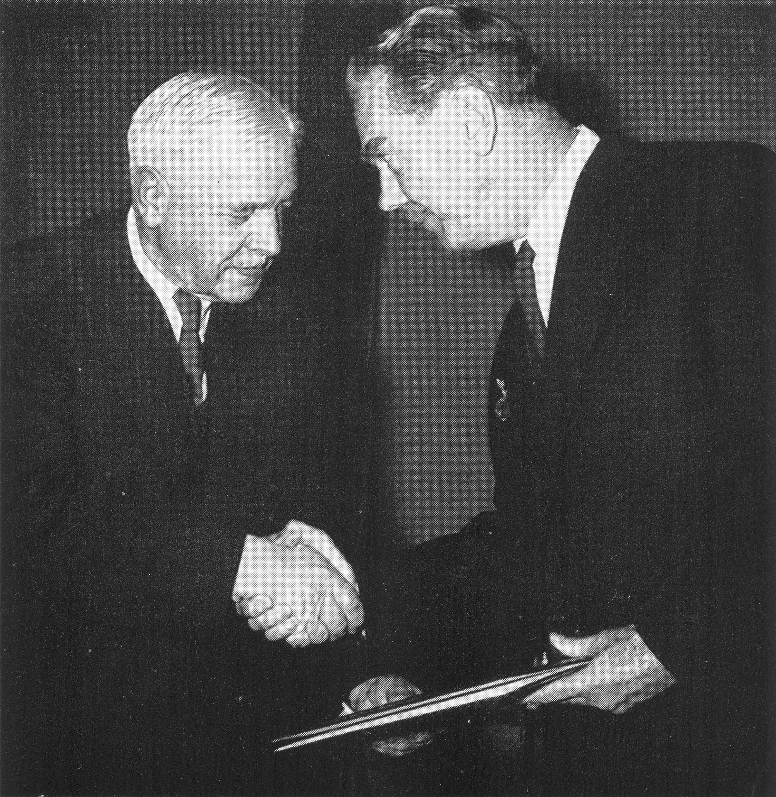 Artur Lundkvist receives the Lenin Peace Prize in the fall 1958.